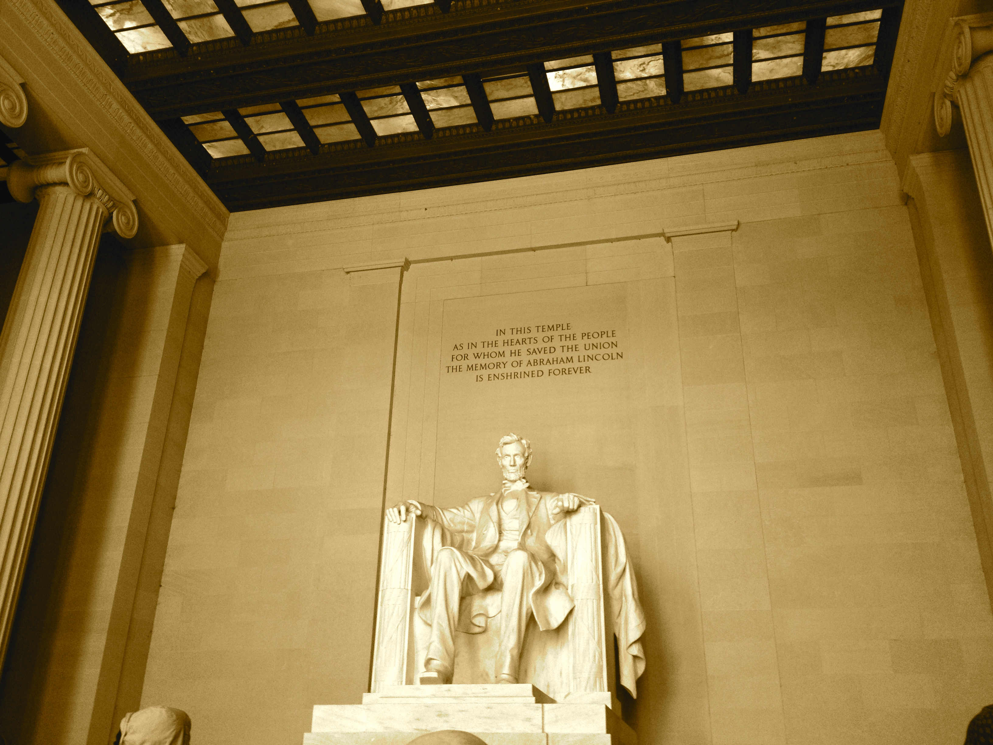 Lincoln Memorial